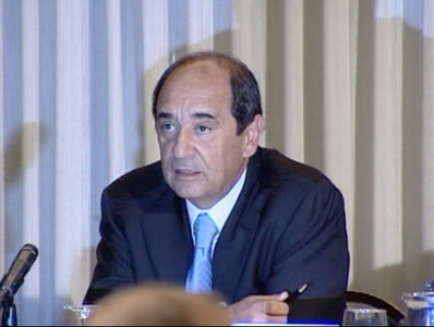 On January 22, 2007, a diverse group of U.S.-based businesses and leading environmental organizations called on the federal government to quickly enact strong national legislation to achieve significant reductions of greenhouse gas emissions. The group said any delay in action to control emissions increases the risk of unavoidable consequences that could necessitate even steeper reductions in the future. For more information, visit WRI's website or the USCAP website.